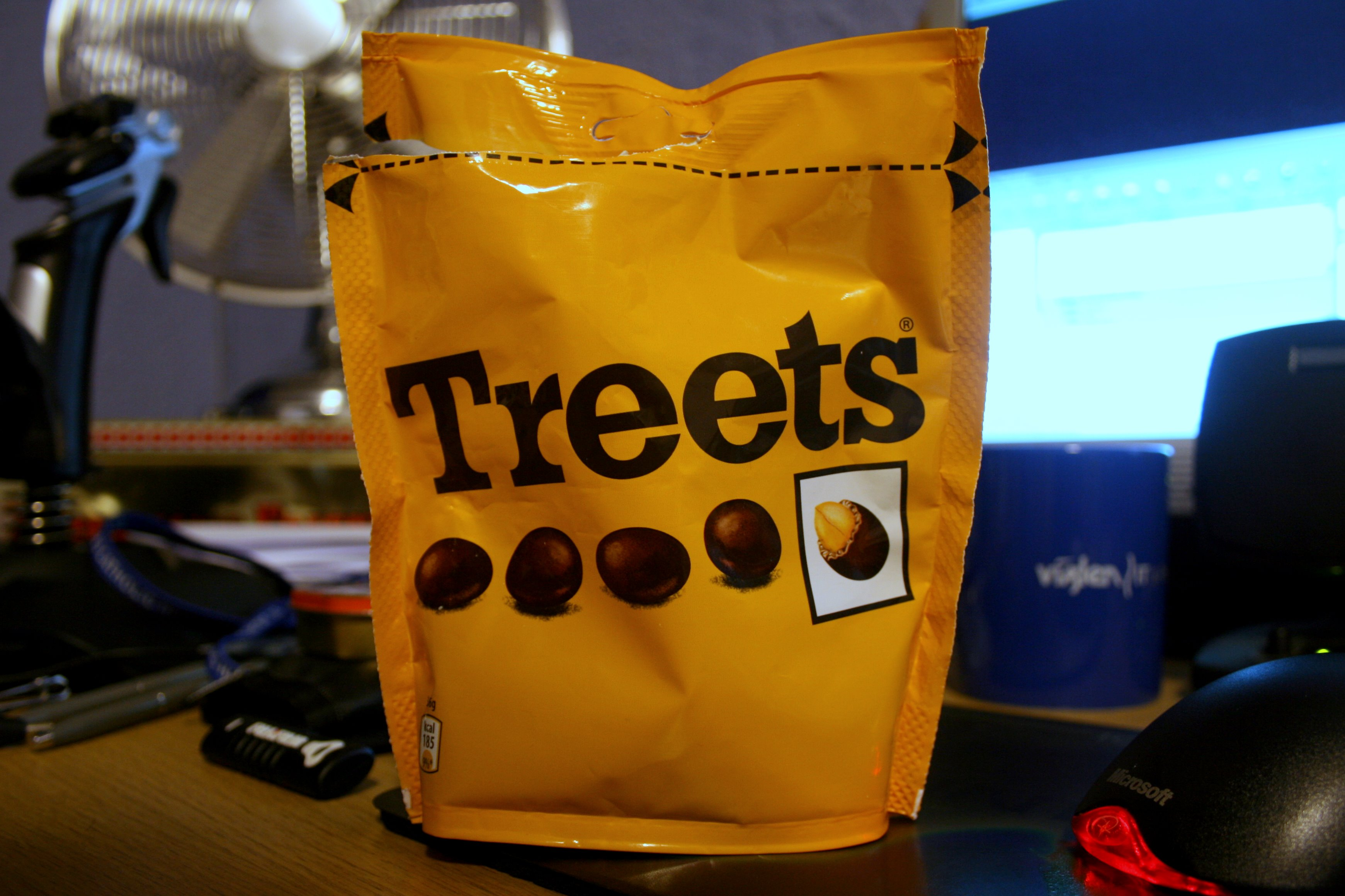 This is yet again and appallingly lazy picture, and yet that is somehow strangely appropriate. I like, when I can, to have my picture reflect something that I've done or experienced that day, and today I have done absolutely nothing - not even left the house. So amongst the mess on my desk, here's a delightful retro sweet. Treets were launched by Mars in 1976, and ruled the roost of chocolate peanut snacks before being phased out in 1988 by those darned multi-coloured M&Ms. For some reason, god knows why, they're back. I'm happy on one hand, because they're nice, yet sad on the other because Mars chose to resurrect Treets instead of Pacers! Treets already have a market equivalent (Peanut M&Ms) but Pacers (Mint Opal Fruits/Starbursts) really don't. Bring back Pacers!!!